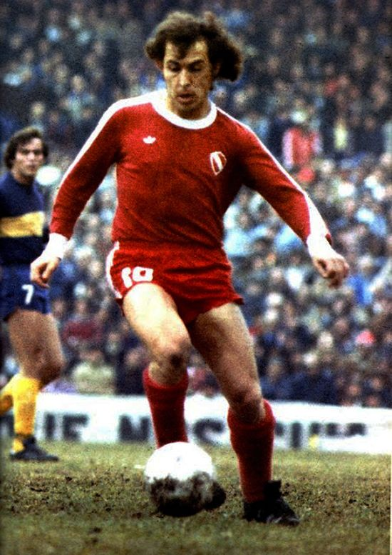 Ricardo Bochini playing vs. Boca Juniors.